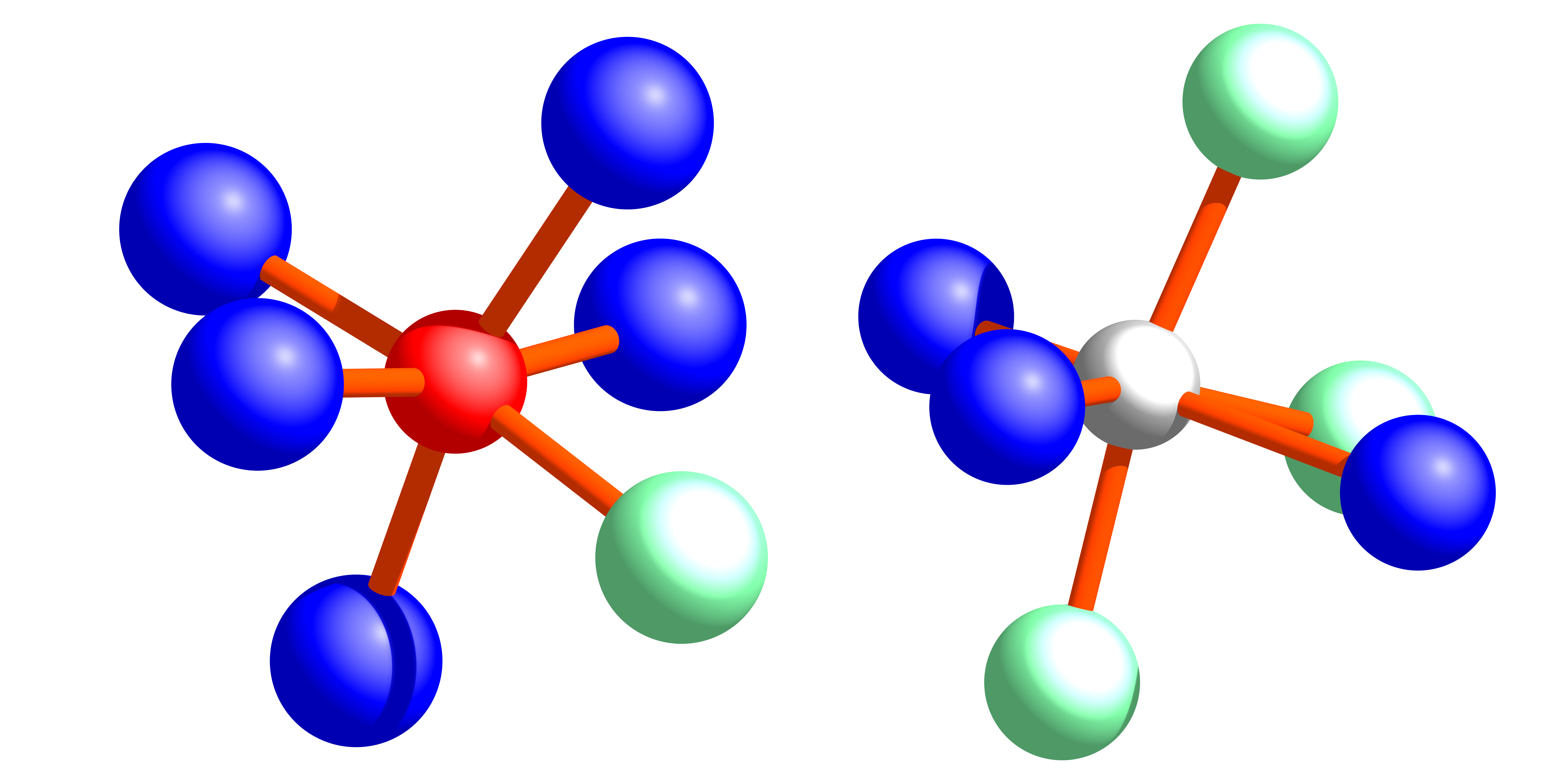 Canaphit structure: Ca- and Na-coordination, viewed along b-axis. Left: Calcium (red) bonded to oxygen (blue) and water (turquoise) Right: Sodium (gray) bonded to oxygen (blue) and water (turquoise) Data from: Roland C. Rouse, Donald R. Peacor, Robert L. Freed (1988): Pyrophosphate groups in the structure of canaphite, CaNa2P2O7.4H2O: The first occurrence of a condensed phosphate as a mineral, American Mineralogist 73, pp. 168-171 Image calculation: Larry W. Finger, Martin Kroeker, and Brian H. Toby, DRAWxtl, an open-source computer program to produce crystal-structure drawings, J. Applied Crystallography V40, pp. 188-192, 2007 Rendering: POVRAY